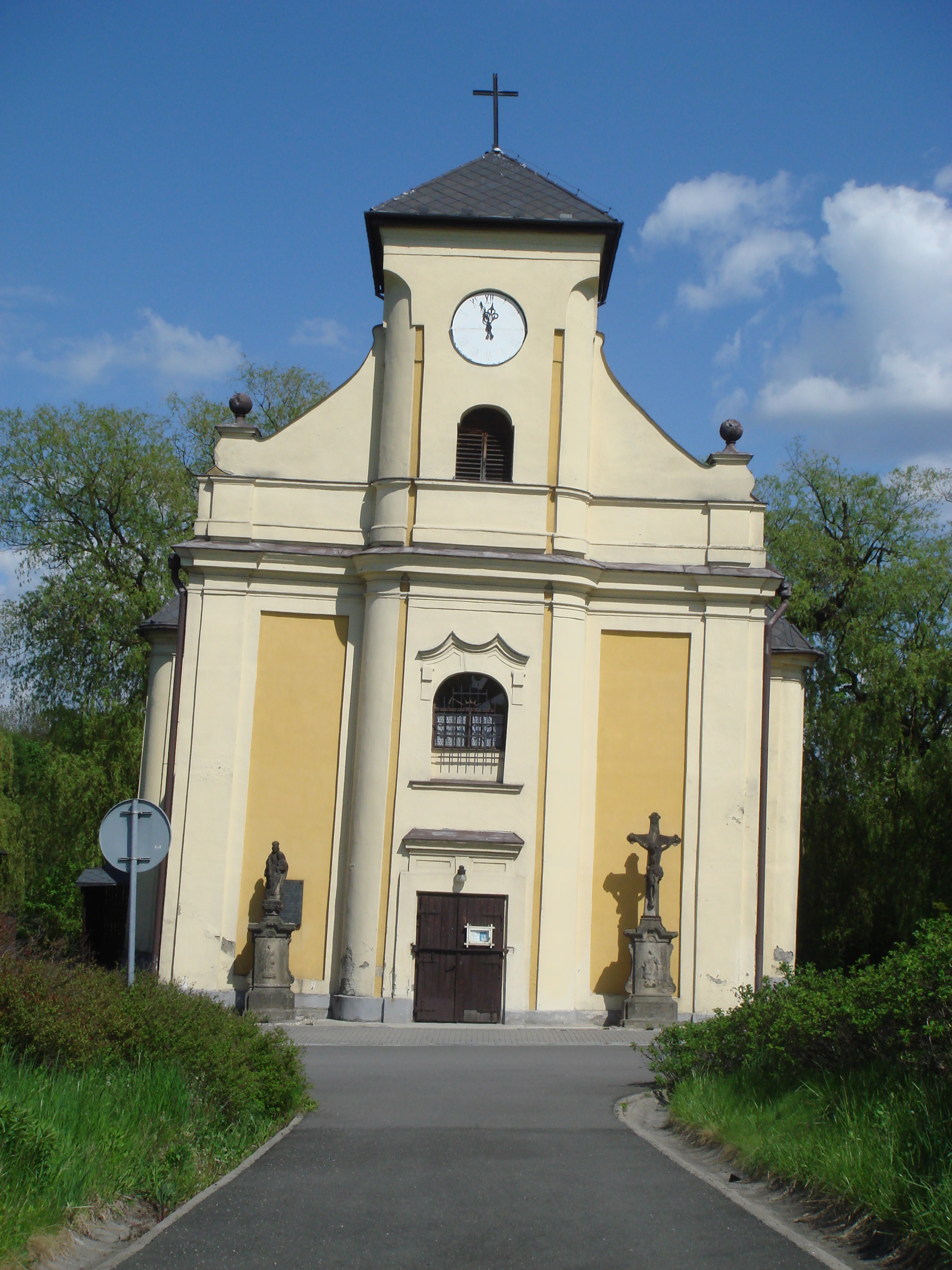 Saint Peter of Alcantara Church in Karviná-Doly (Moravian-Silesian Region, Czech Republic).